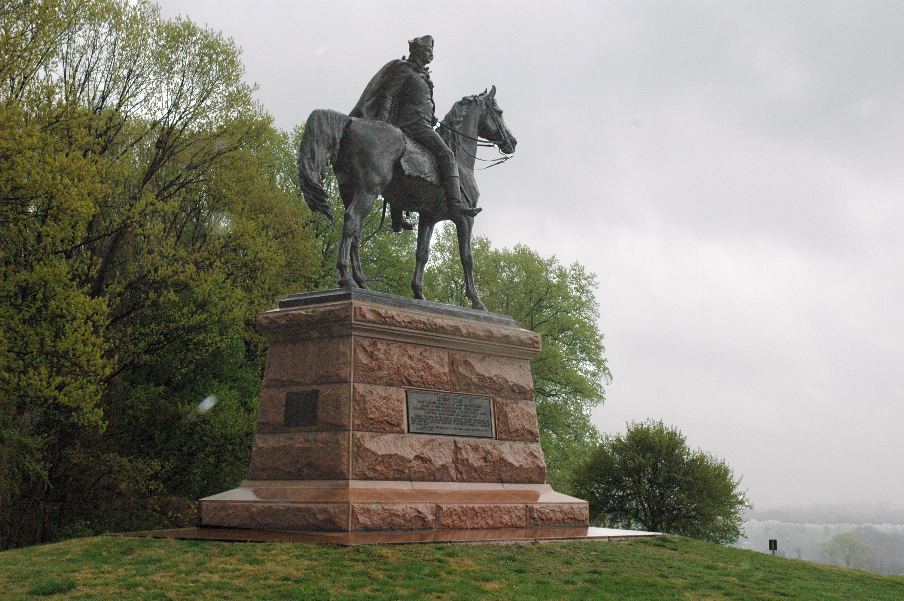 A statue of Anthony Wayne at Valley Forge.